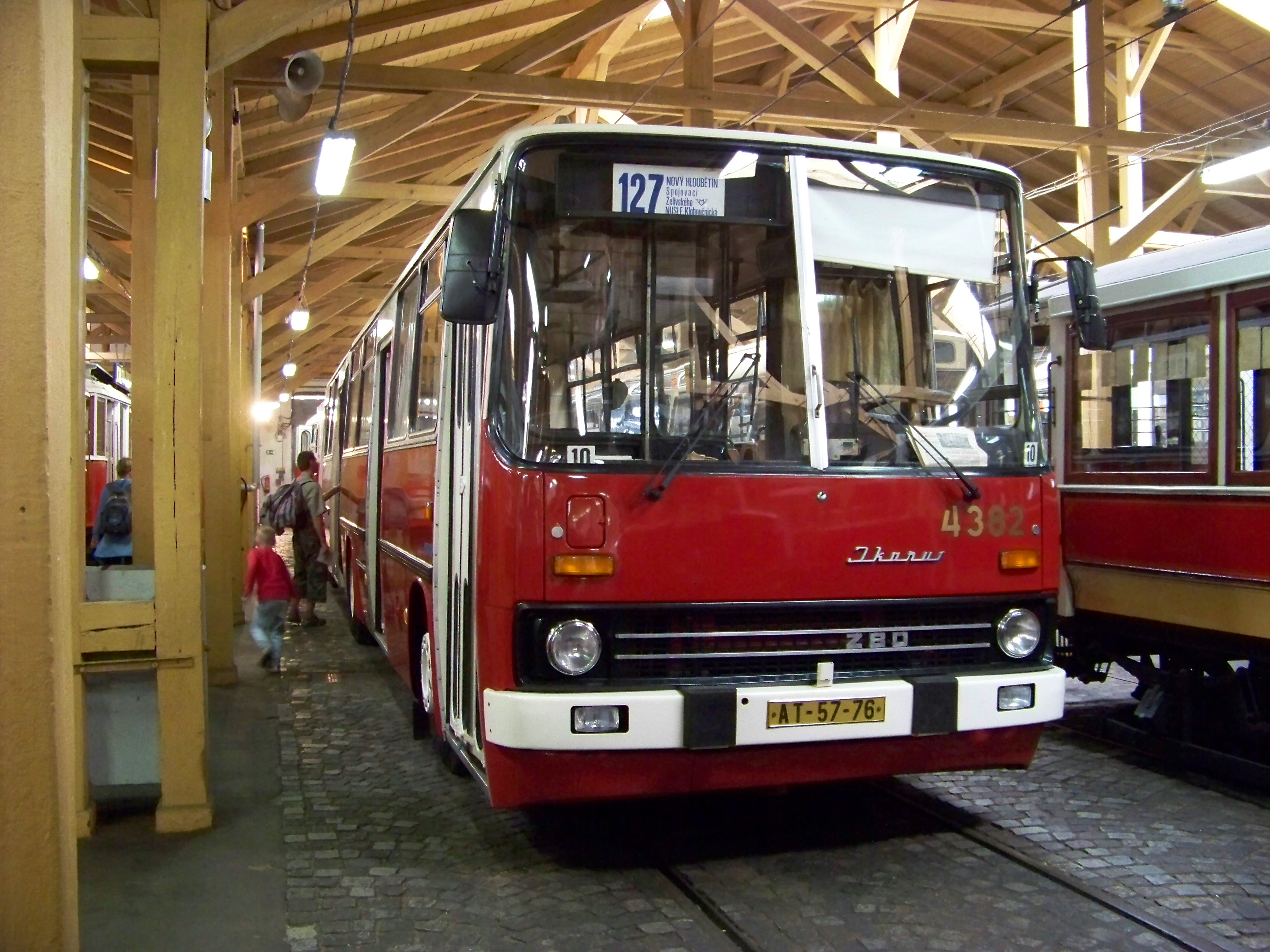 Prague-Střešovice, Czech Republic. Střešovice tram depot, Public Transport Museum. A bus Ikarus 280.